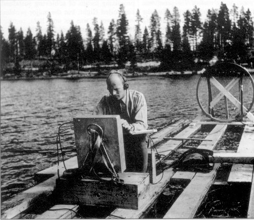 Search for "ghost rocket" seen crashing July 19, 1946, in Lake Kölmjärv, Sweden. Search conducted July/August 1946, by Swedish Air Force officer Karl-Gösta Bartoll (pictured).